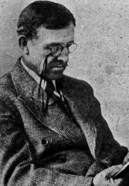 Photo of Marshall V. Hartranft, one of the founders of Tujunga, California, taken before 1920 in collection of Little Landers Historical Society. This image describes Mr. Hartranft in a way that words cannot.